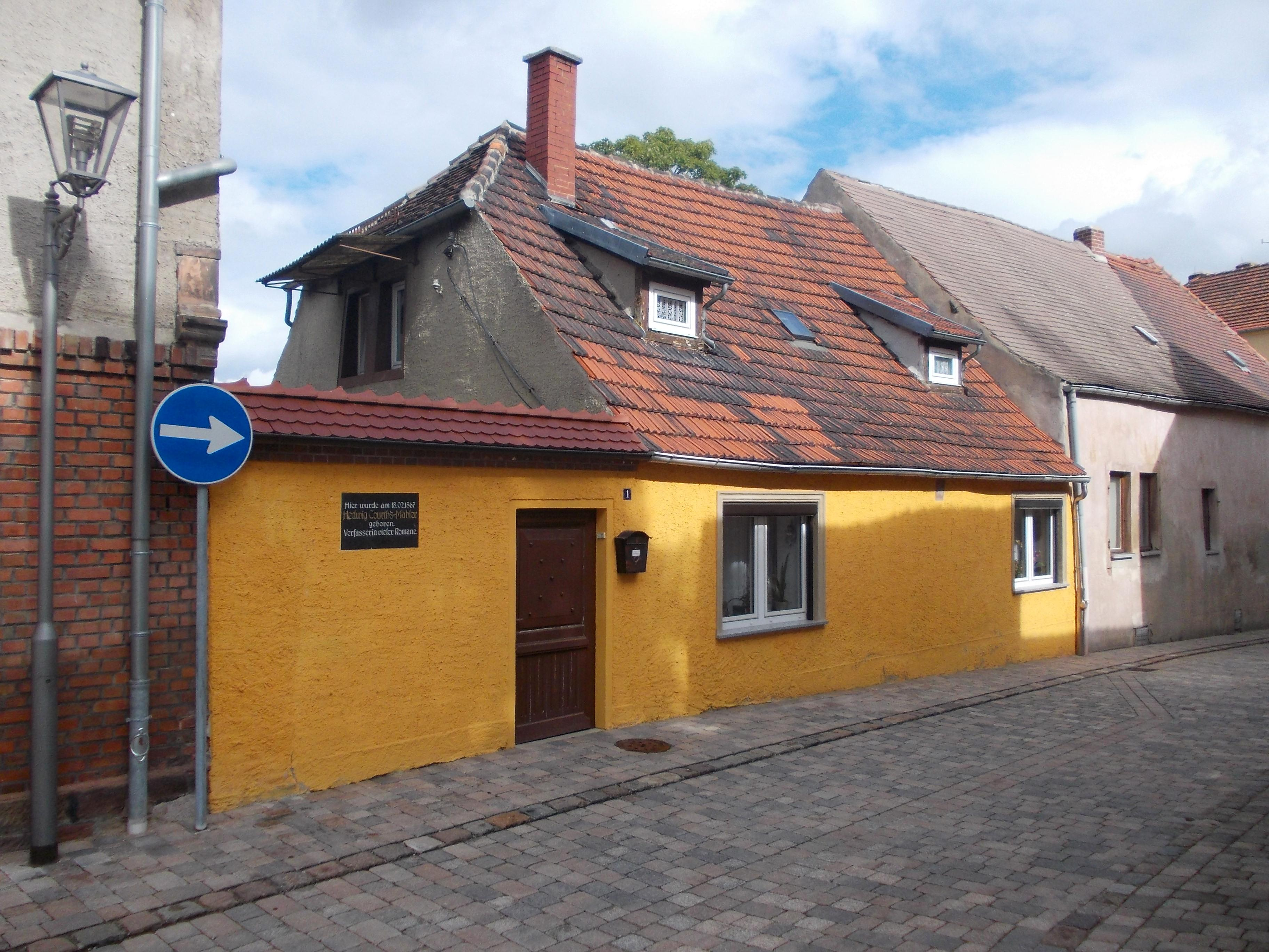 No. 1, Laternengasse in Nebra (district: Burgenlandkreis, Saxony-Anhalt), birthplace of the writer Hedwig Courths-Mahler.